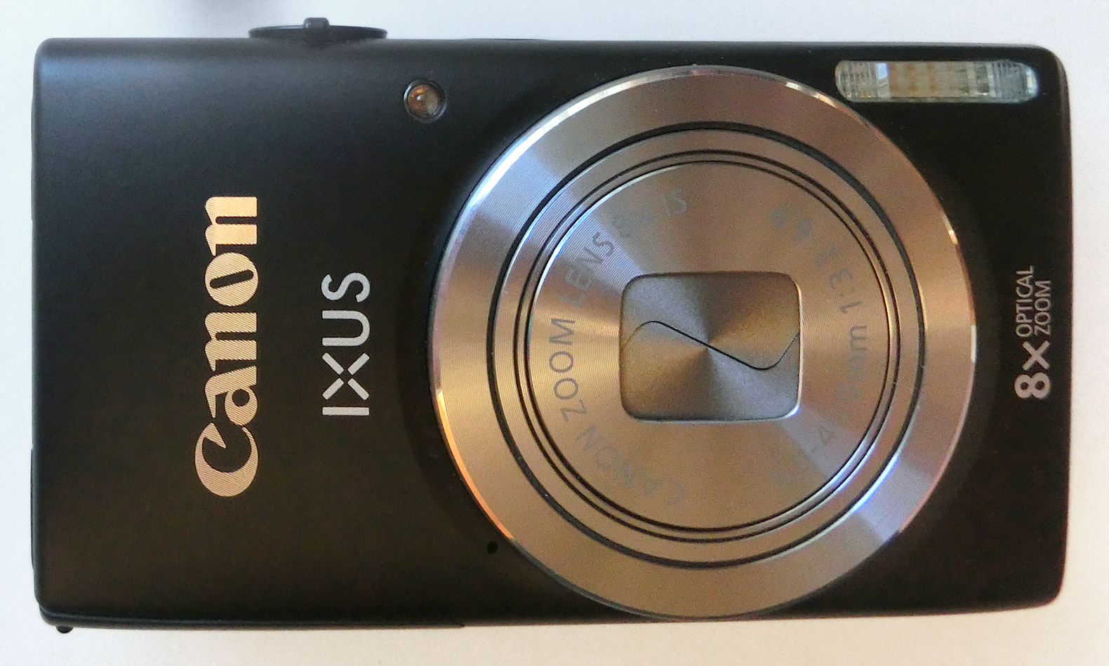 A black Canon Digital IXUS 135 with 8× potical zoom.